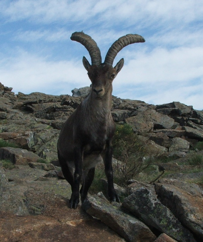 Male of Capra pyrenaica victoriae in Sierra de Gredos, Spain.